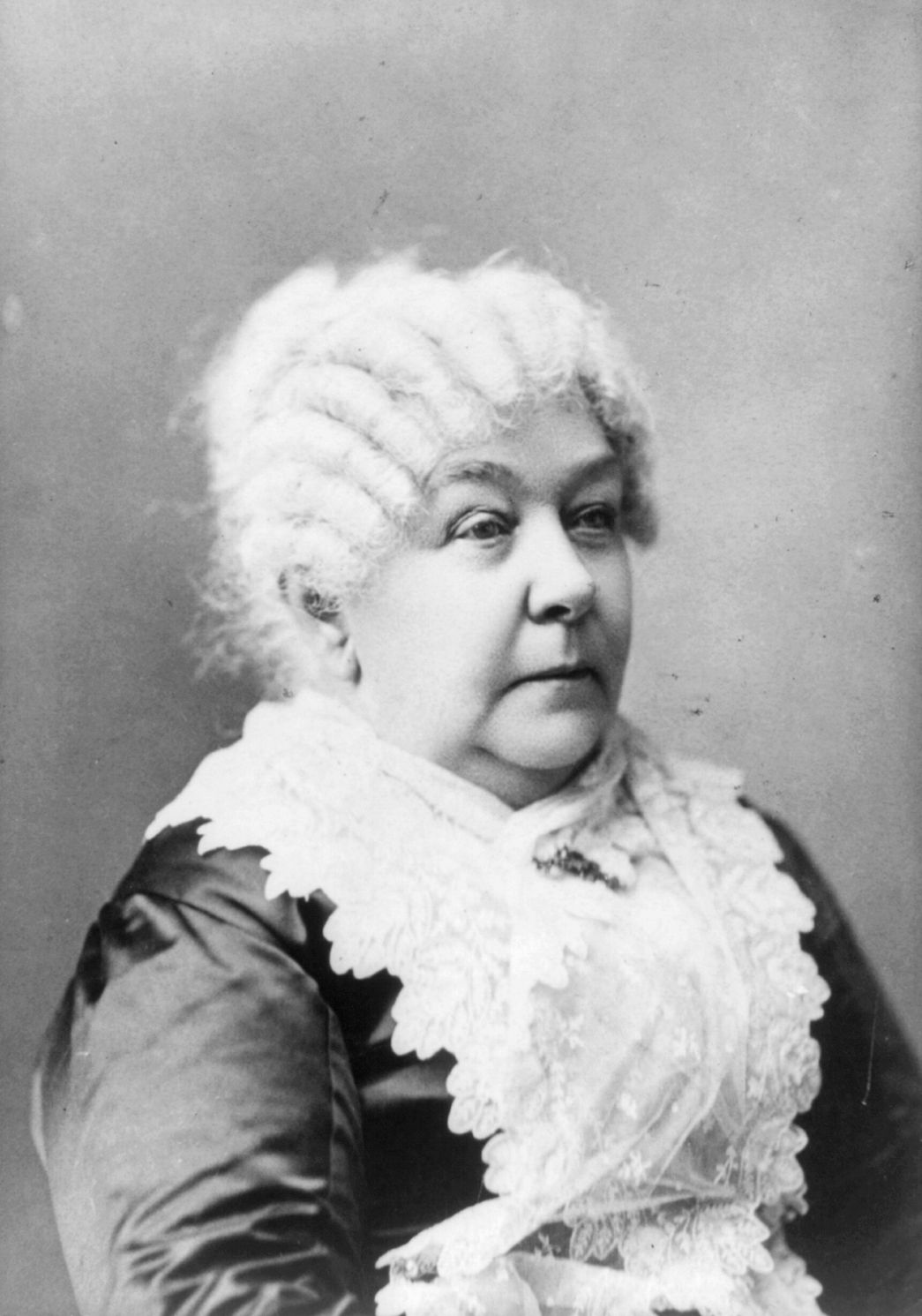 STANTON, ELIZABETH (November 12, 1815 – October 26, 1902). Photograph by Veeder. [No date found on caption card.]